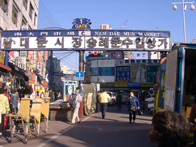 Namdaemun market located in Jung-gu, Seoul, Korea